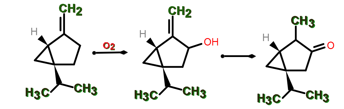 Thujone biological pathway from sabinene and sabinol